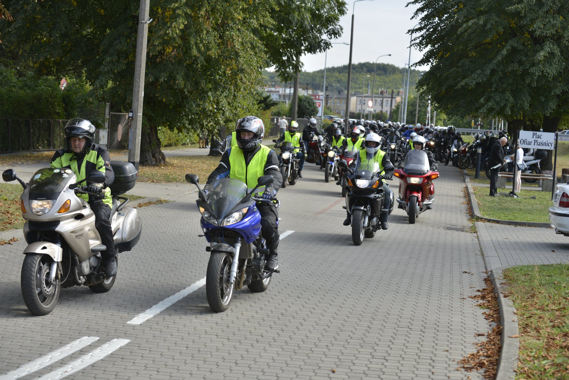 First edition of the Piaśnica Raid Motocross in September 2018, commemorating victims of the Piaśnica massacre.